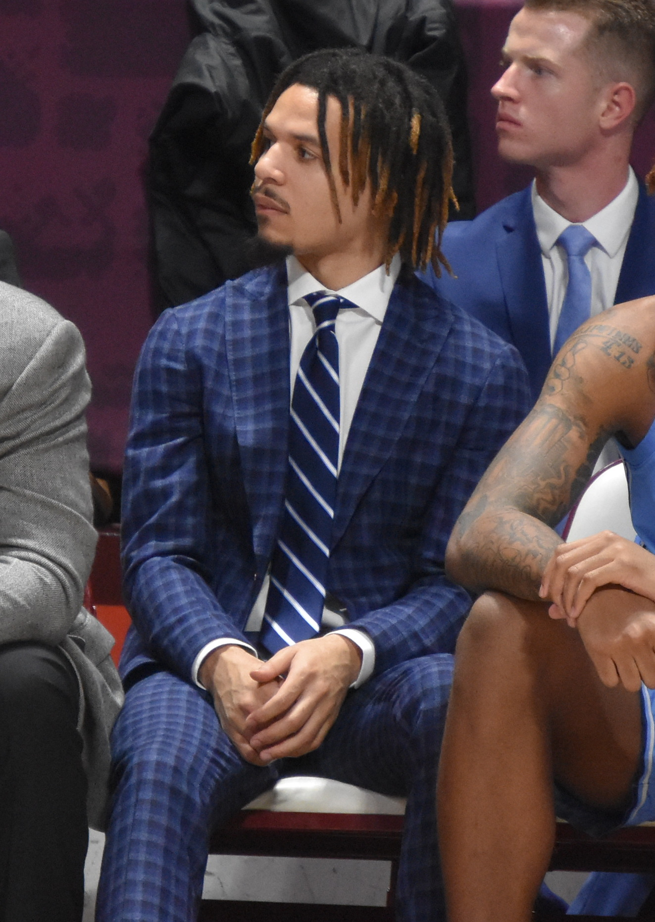 An injured Cole Anthony is still confined to the Carolina Bench during the UNC - VirginIA Tech Game at Cassell Coliseum